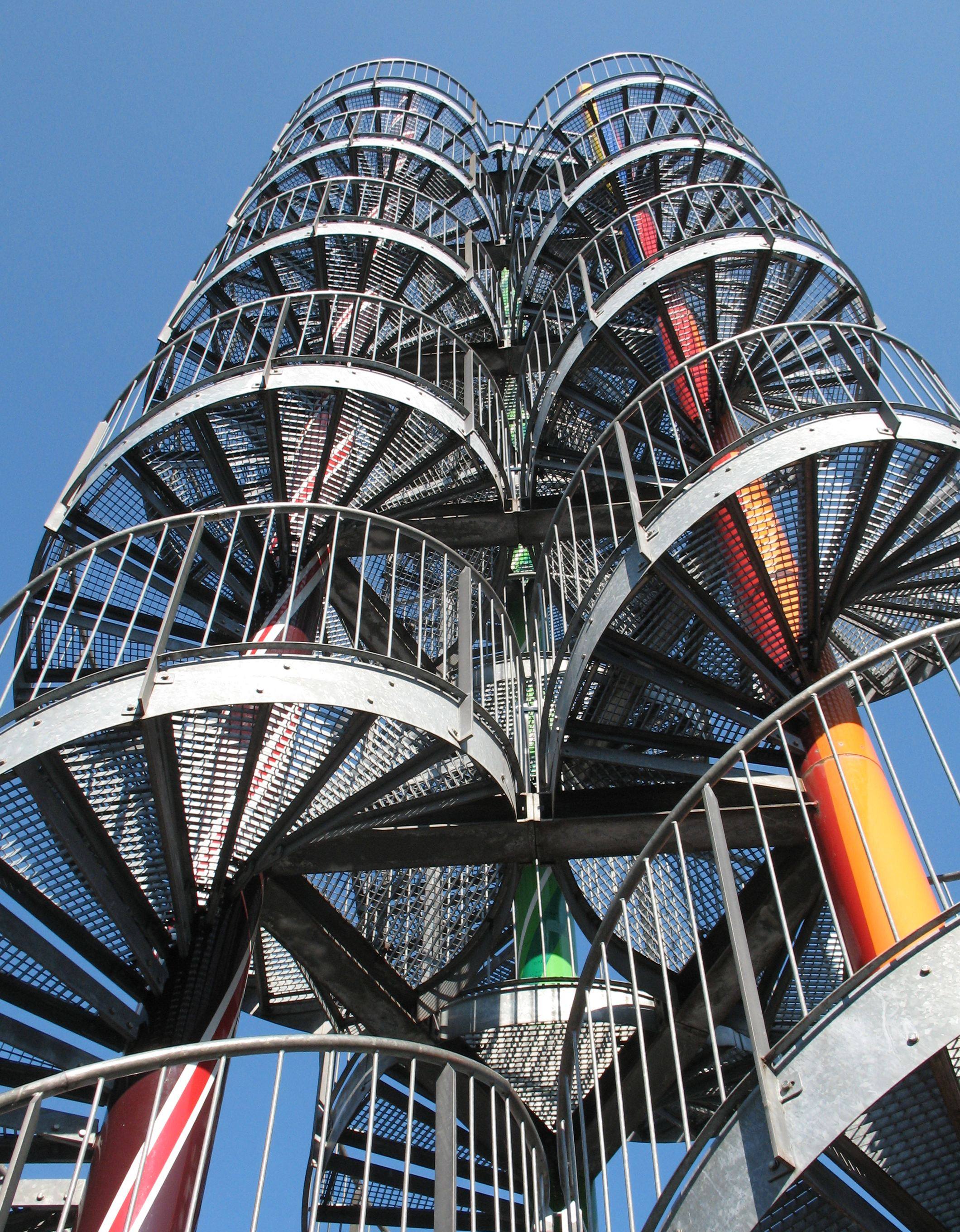 Observation tower in Hamburg-Allermöhe, Germany